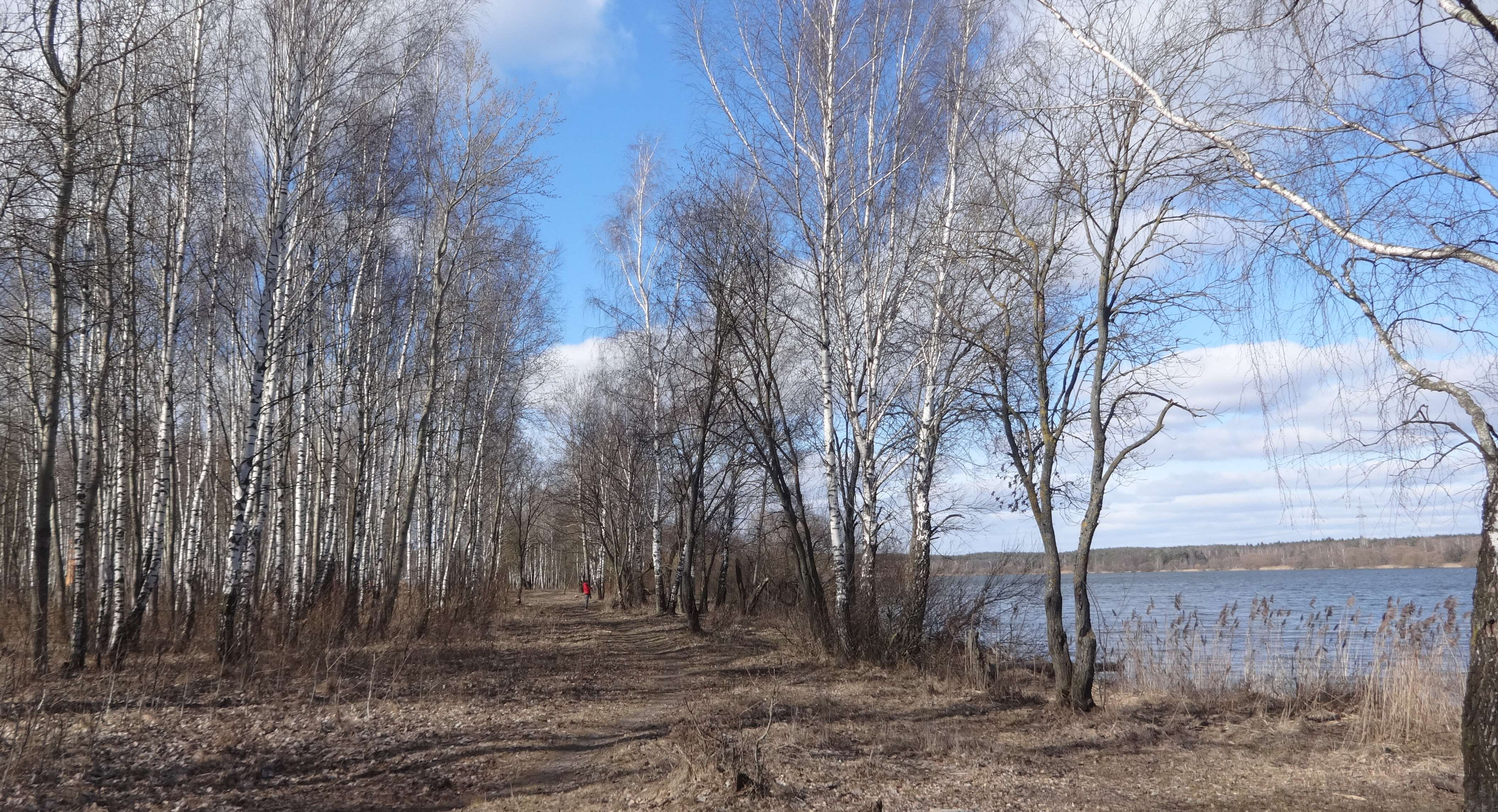 Drazdy Reservoir in Minsk city (Belarus), 22 March 2015 AD